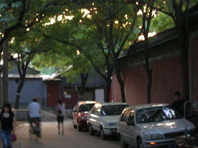 Baili Hutong in Beijing